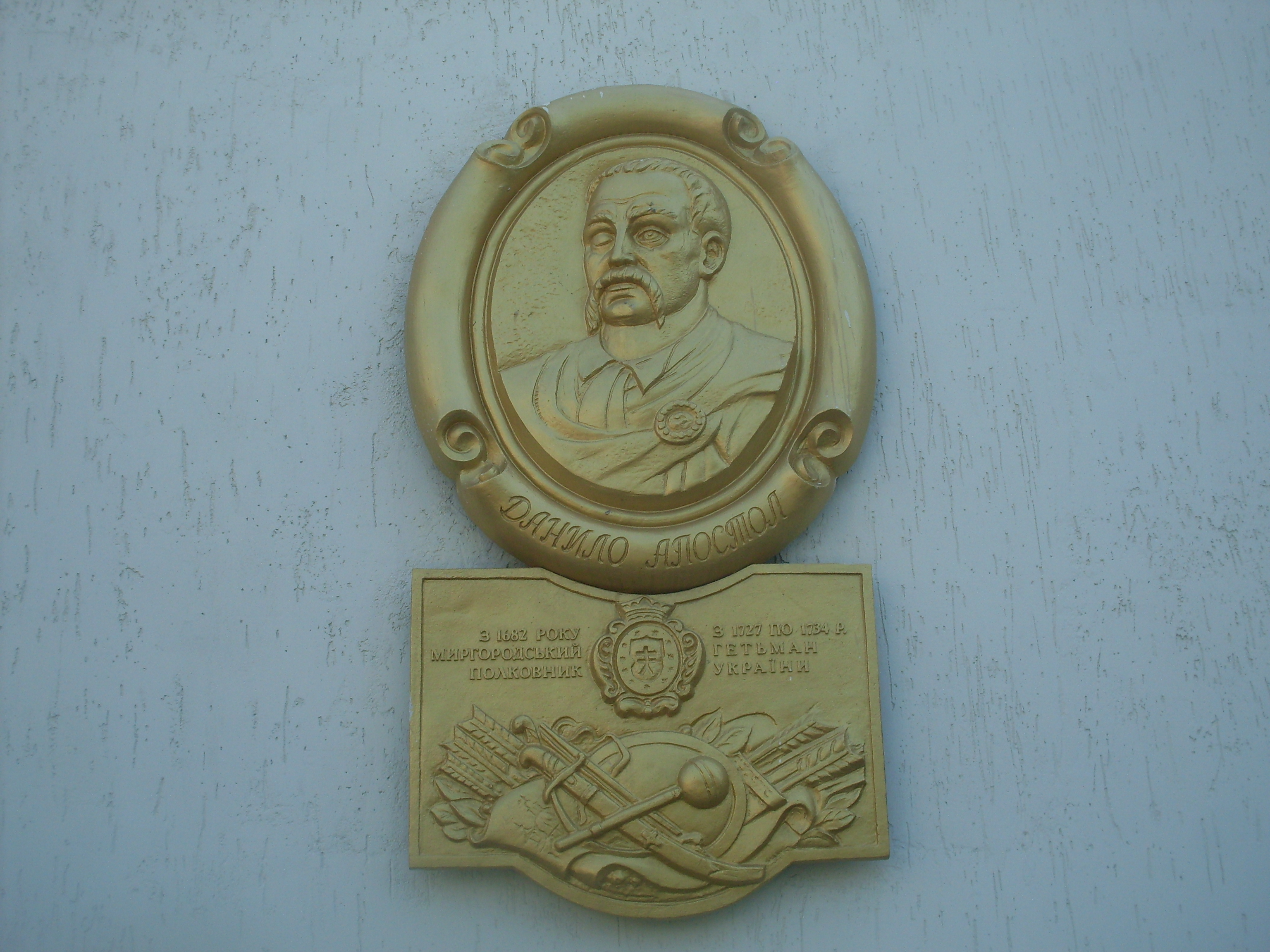 The memorial in honour of Danylo Apostol in Myrhorod, UkraineEsperanto: Memora signo por Danilo Apostol en Mirhorodo, Ukrainio